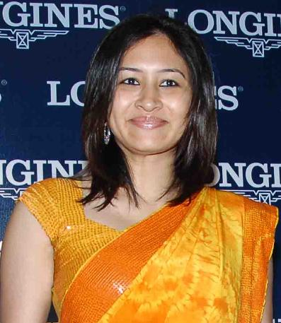 jwala